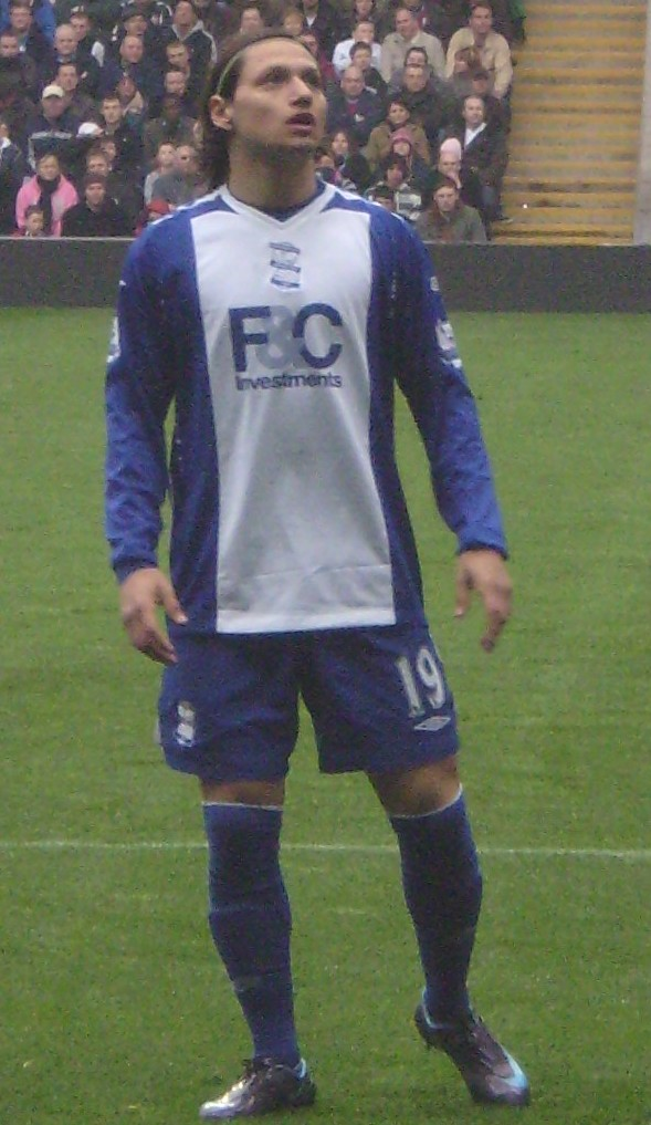 Argentina U-20 football (soccer) striker Mauro Zárate of Birmingham City F.C. during the Premier League match at Villa Park against Aston Villa F.C.